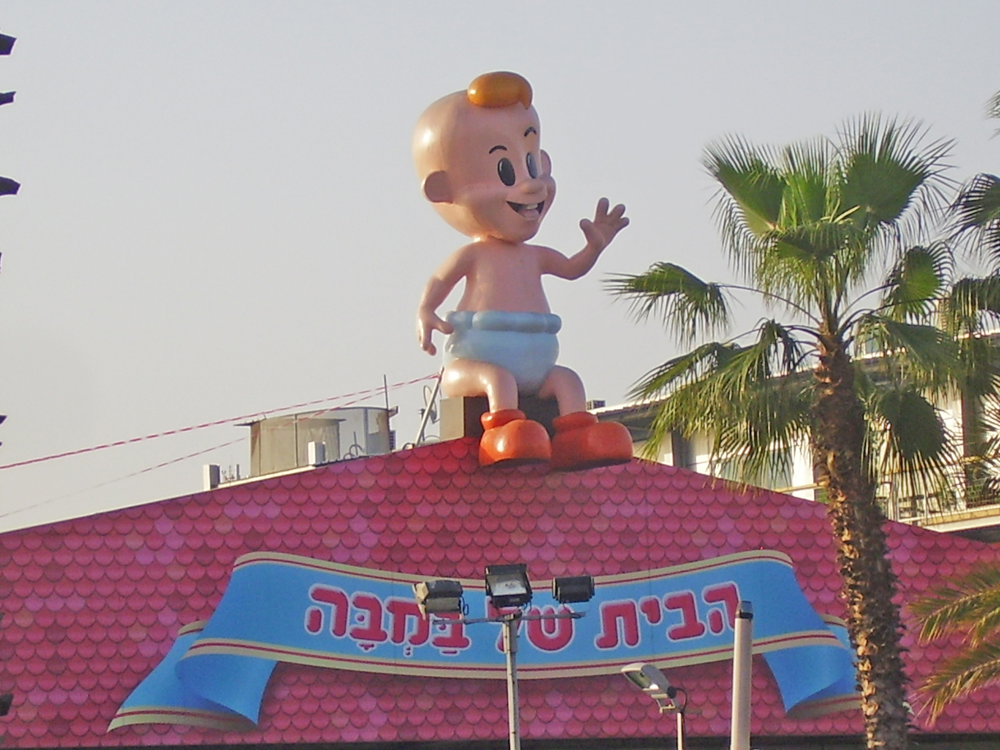 Bamba (Osem) factory in Holon